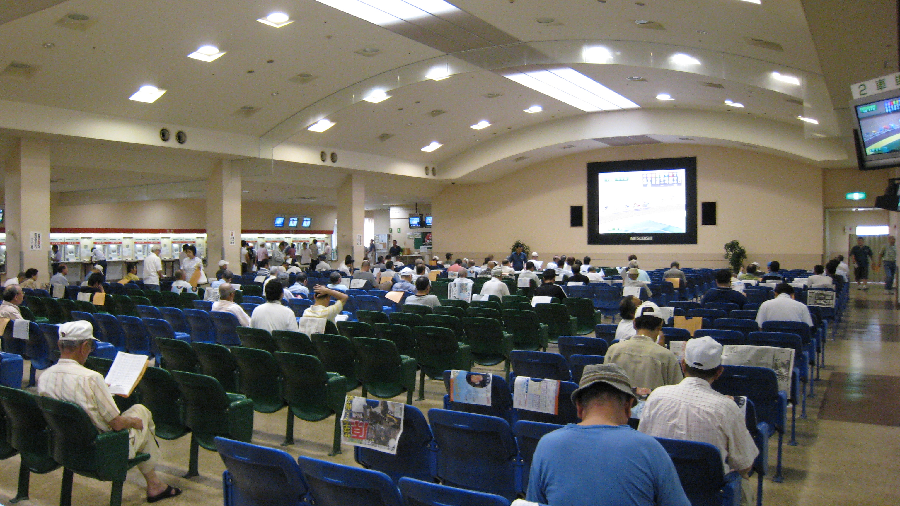 Tatebayashi WinDome - cycle racing(velodrome) Off track in Tatebayashi,Gunma prefecture,Japan, taken at 28,August,2007 by Taketarou